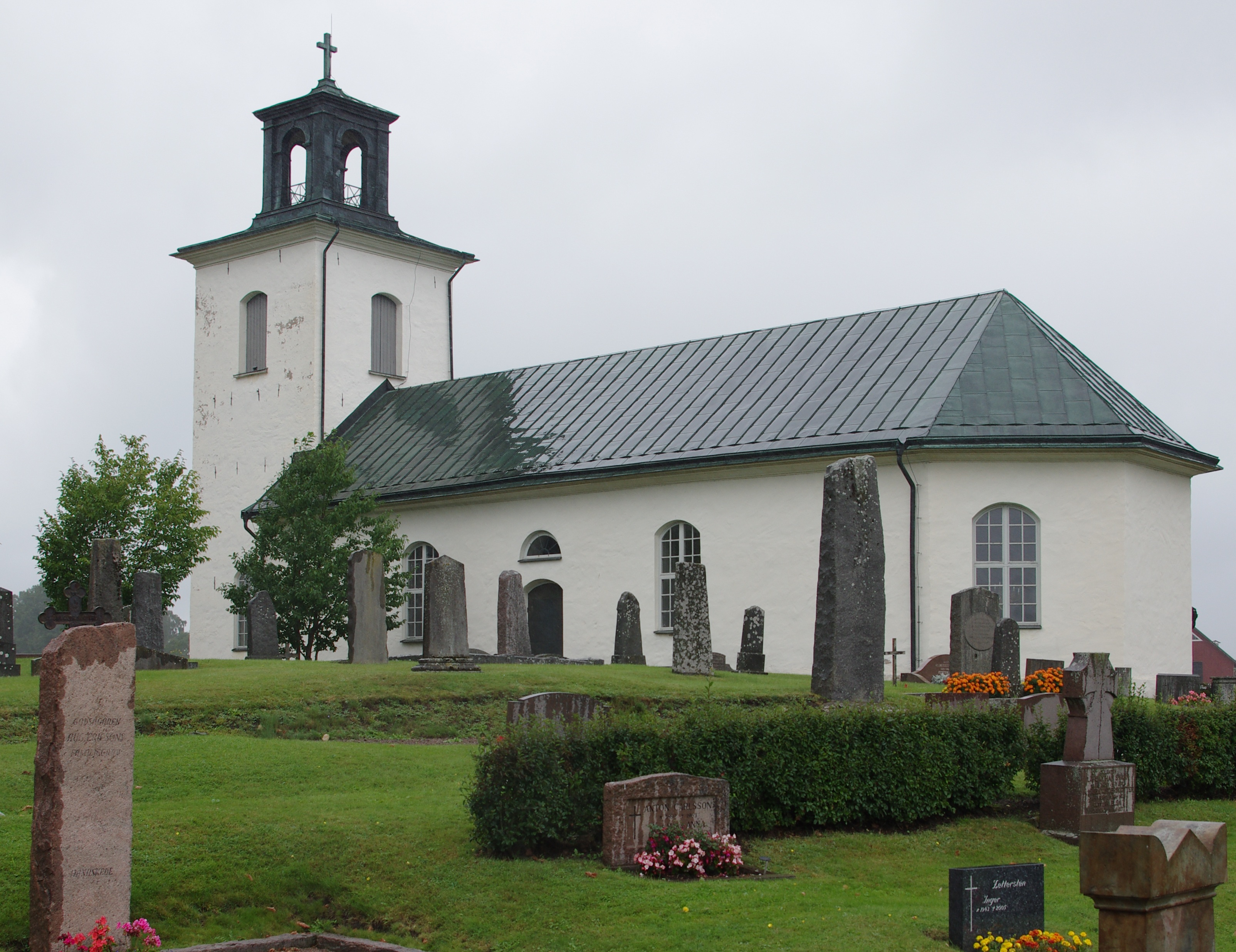 Norra Vings kyrka (english:Norra Ving church) in Västergötland and Skara municipality in Västragötaland county, Sweden.